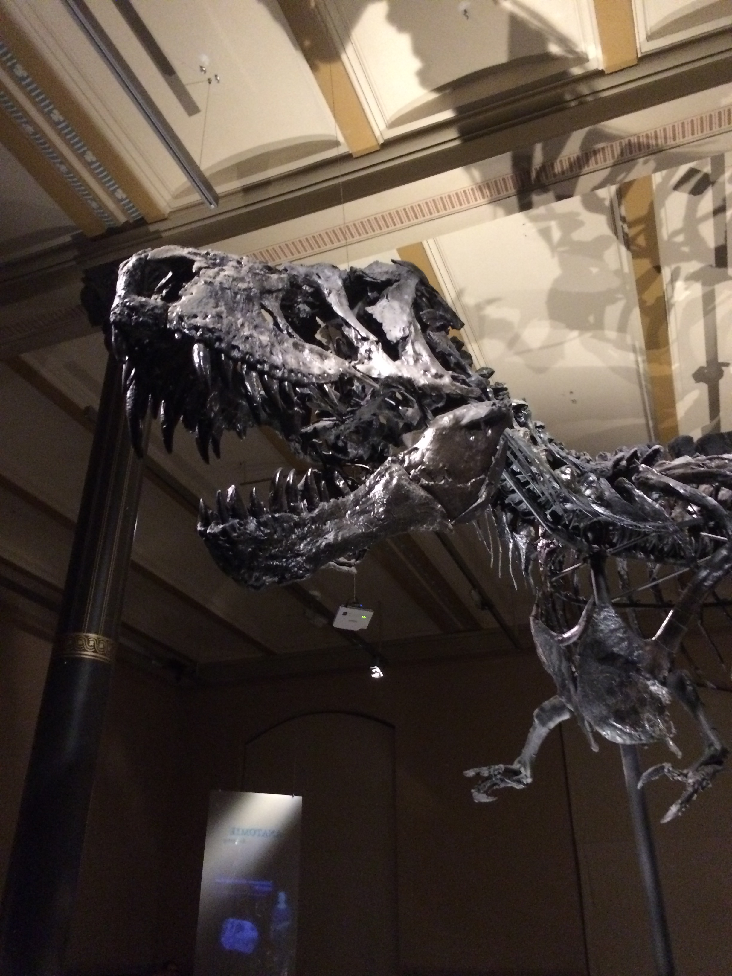 Tyrannosaurus Skeleton (Tristan) at the Natural History Museum in Berlin